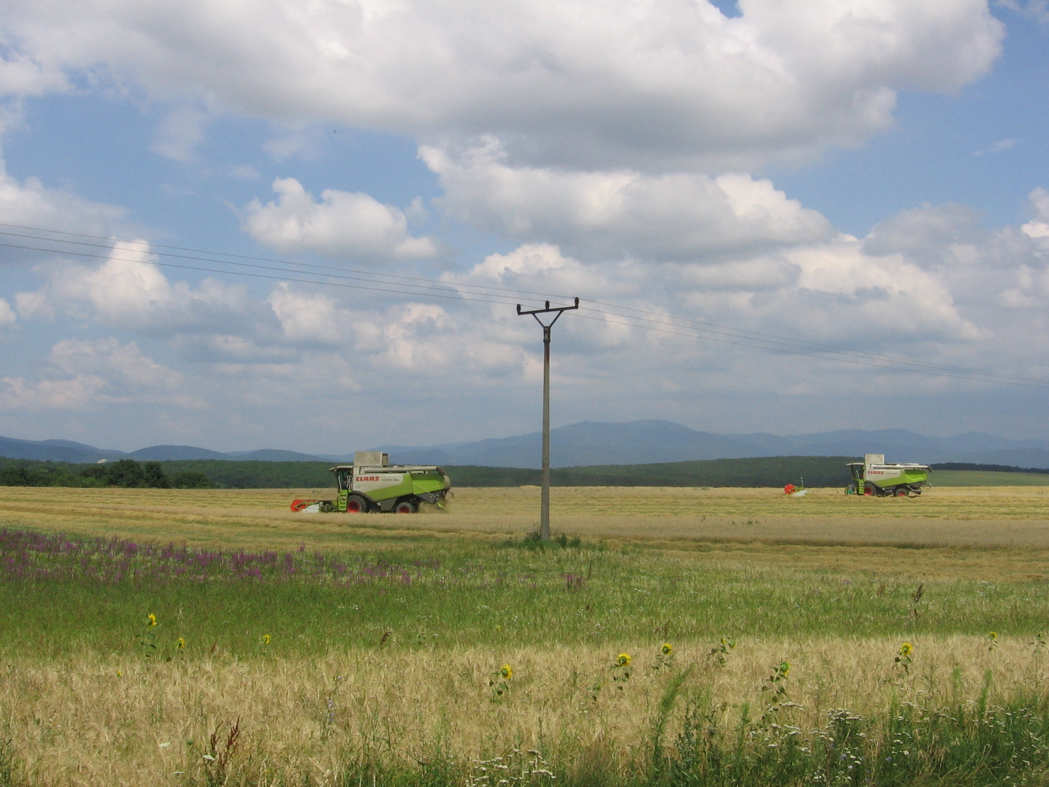 Claas Lexion combine harvesters during the wheat harvest near the Dubodiel, Trenčín district, Slovakia. Summer 2010.